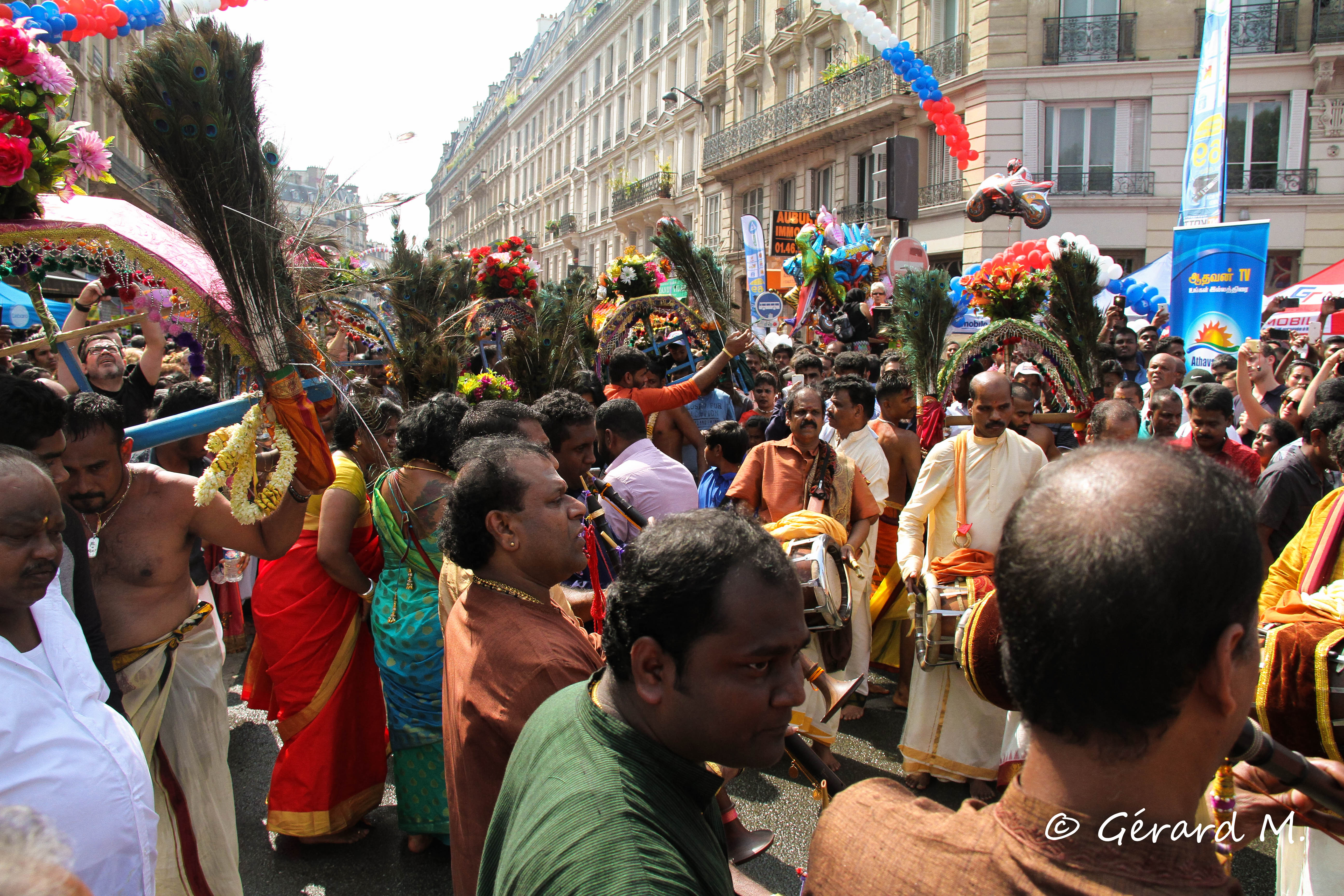 Celebration of the Indian god Ganesh in Paris, France in 2017.